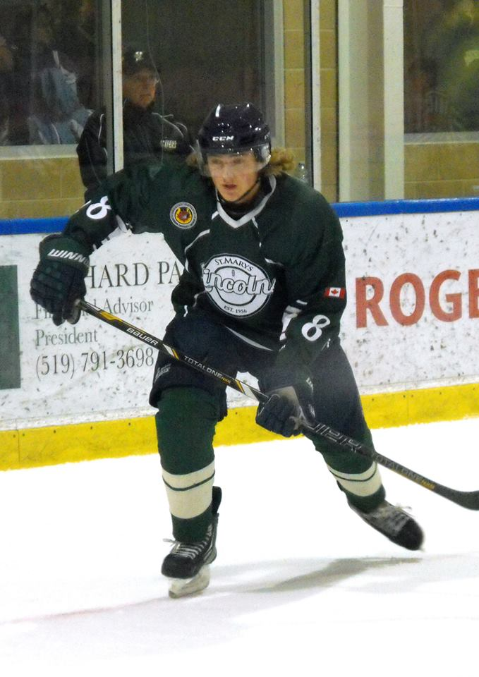 This photo was taken by Devan Mighton during the 2014-15 GOJHL season.